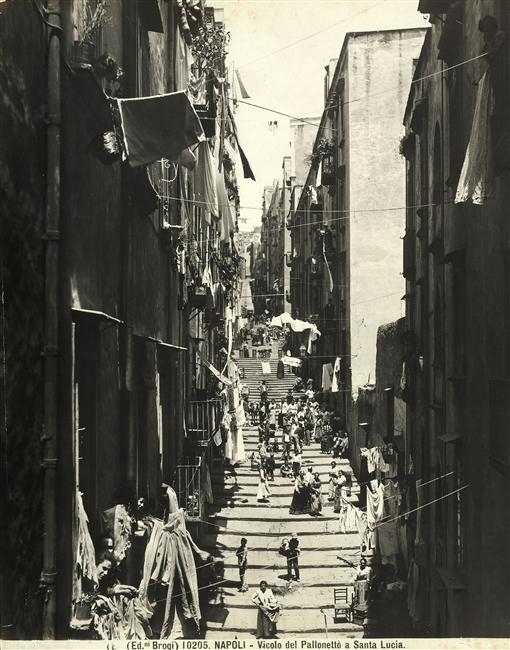 Carlo Brogi (1850-1925) - "Naples - "Vicolo del Pallonetto" lane at Santa Lucia". Catalogue # 10205.